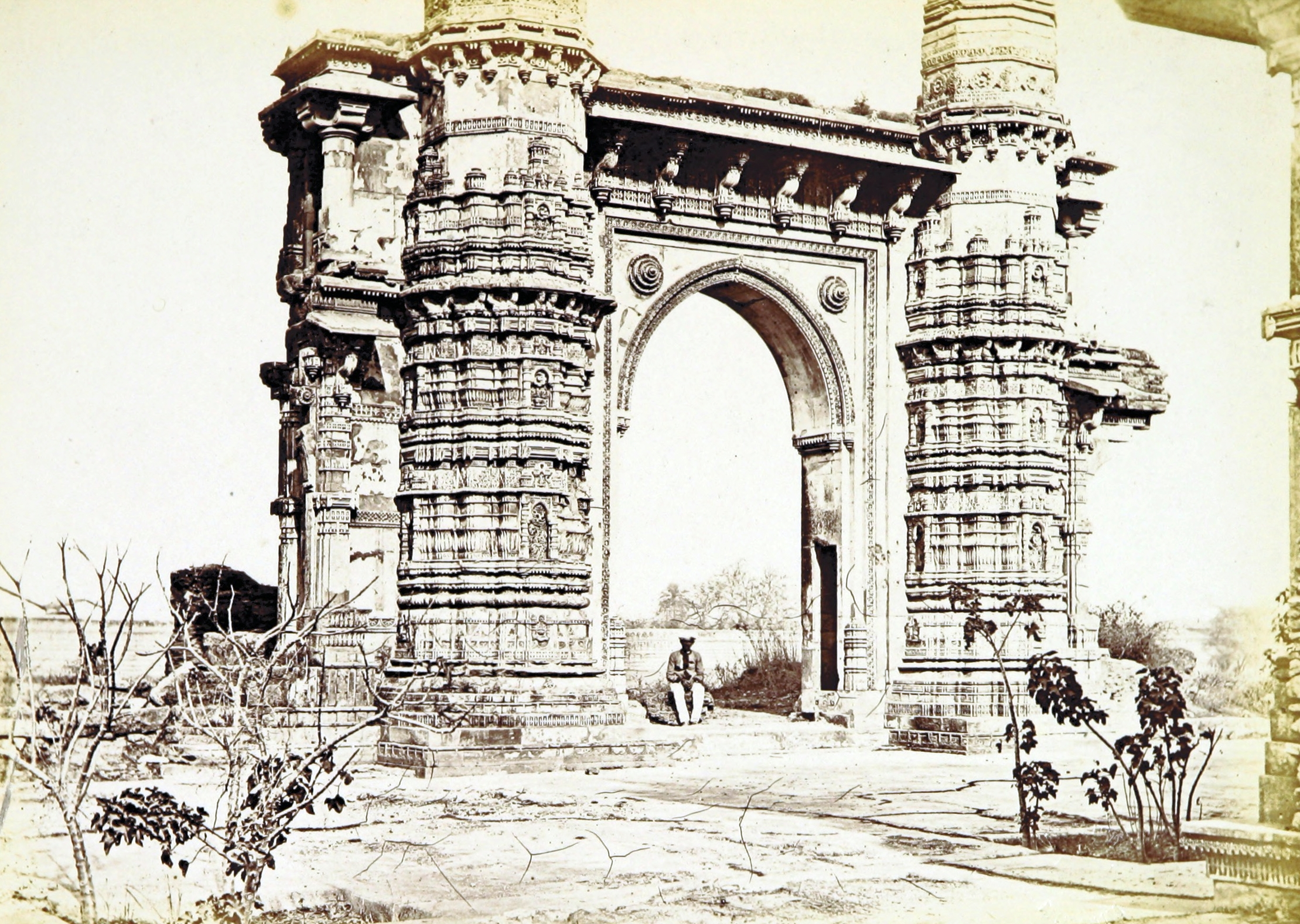 Image taken from: Title: "Architecture at Ahmedabad, the Capital of Goozerat, photographed by Colonel Biggs, ... With an historical and descriptive sketch, by T. C. H., ... and architectural notes by J. Fergusson, etc" Author: HOPE, Theodore Cracraft - Sir, K.C.S.I Contributor: BIGGS, Thomas. Contributor: FERGUSSON, James - Architect Shelfmark: "British Library HMNTS 10057.f.17.", "British Library OC V 6665" Page: 265 Place of Publishing: London Date of Publishing: 1866 Issuance: monographic Identifier: 001730119 Note: The colours, contrast and appearance of these illustrations are unlikely to be true to life. They are derived from scanned images that have been enhanced for machine interpretation and have been altered from their originals. If you wish to purchase a high quality copy of the page that this image is drawn from, please order it here. Please note that you will need to enter details from the above list - such as the shelfmark, the page, the book's volume and so on - when filling out your order. Following this or the link above will take you to the British Library's integrated catalogue. You will be able to download a PDF of the book this image is taken from, as well as view the pages up close with the 'itemViewer'. Click on the 'related items' to search for the electronic version of this work. Click here to see all the illustrations in this book and click here to browse other illustrations published in books in the same year. Please click on the tags shown on the right-hand side for other ways to browse the illustrations.